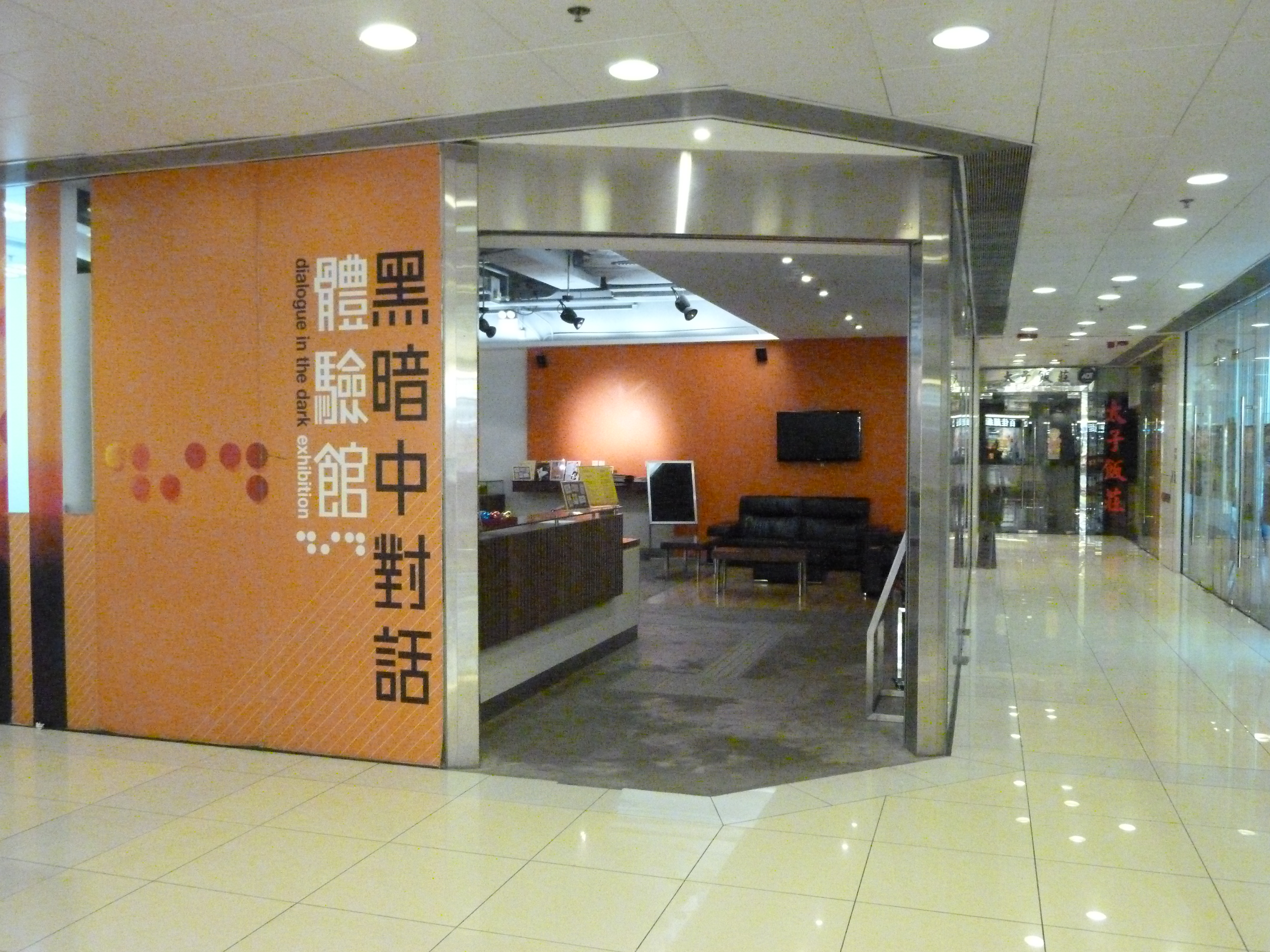 Dialogue in the Dark Exhibition (Shop 215, 2/F, The Household Centre, Nob Hill, 8 King Lai Path, Mei Foo, Kowloon, Hong Kong) 中文（香港）: 黑暗中對話體驗館 (香港九龍美孚景荔徑8號盈暉家居城2樓215號)